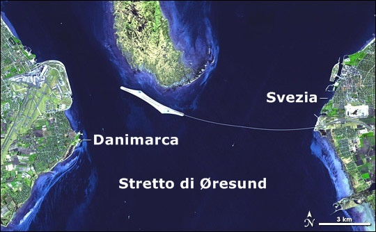 Annotated satellite image of the Oresund Bridge between Denmark and Sweden.